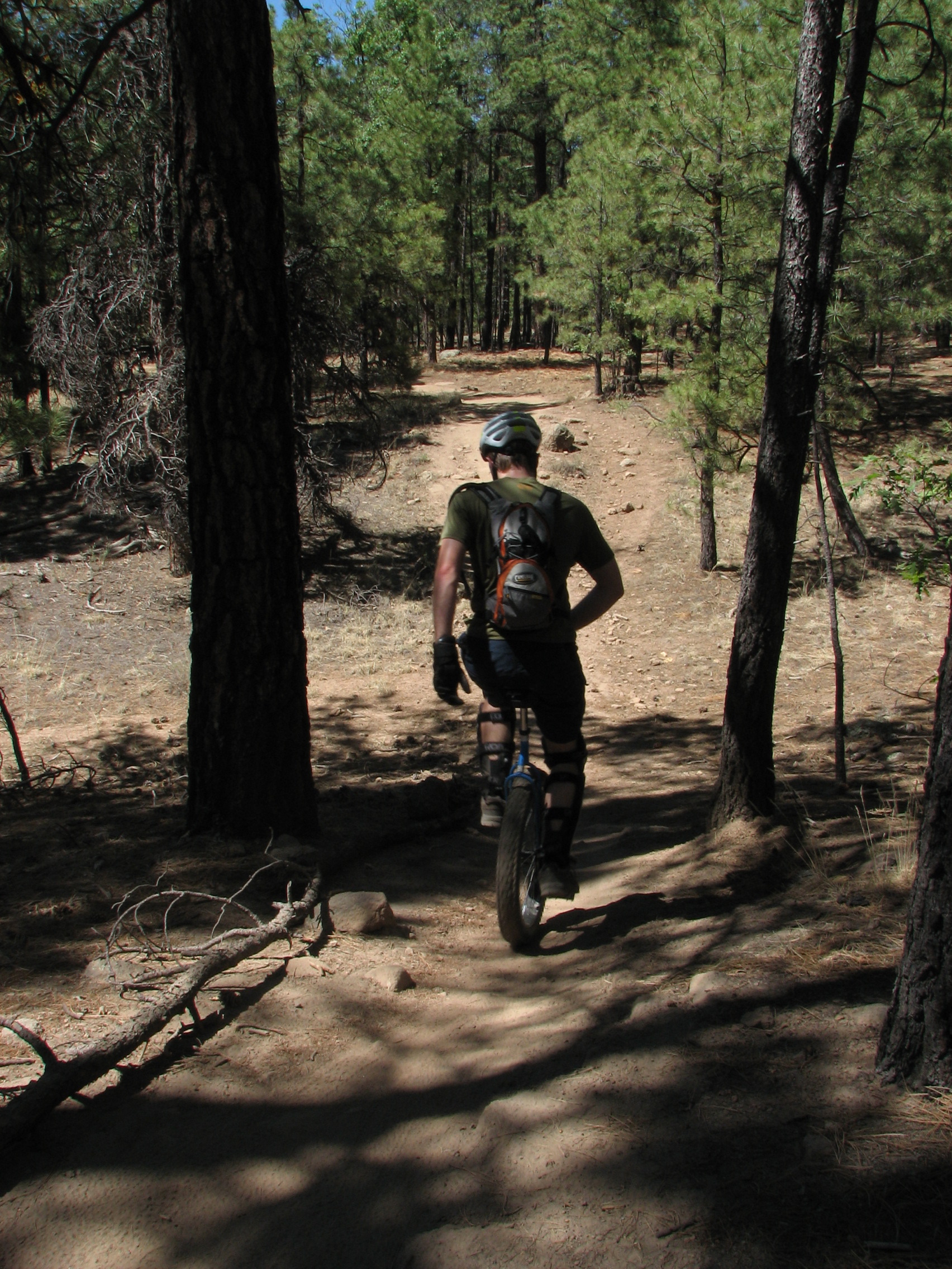 A mountain unicyclist — in Coconino County, Arizona.